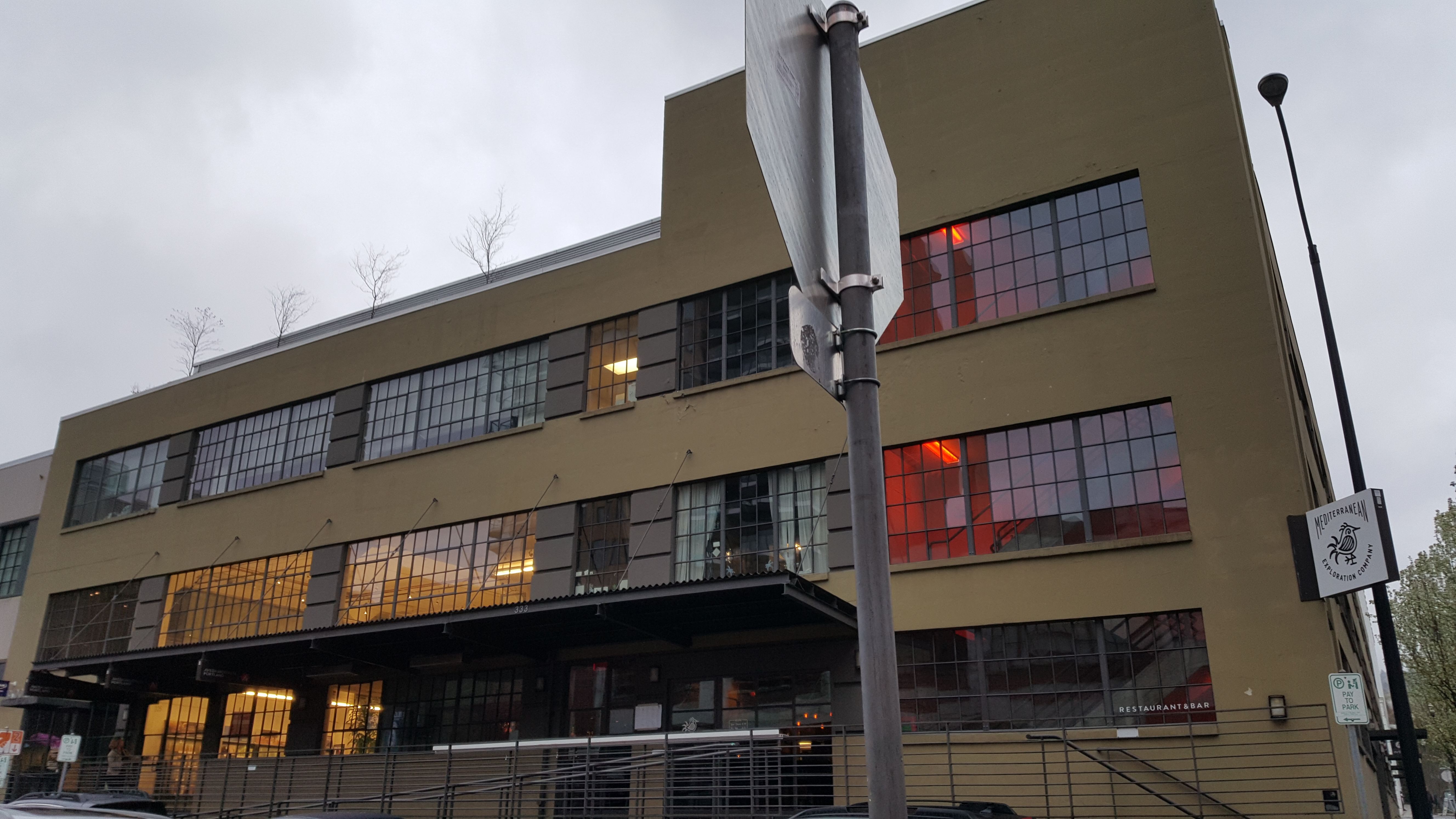 Mediterranean Exploration Company in Portland, Oregon, 2016